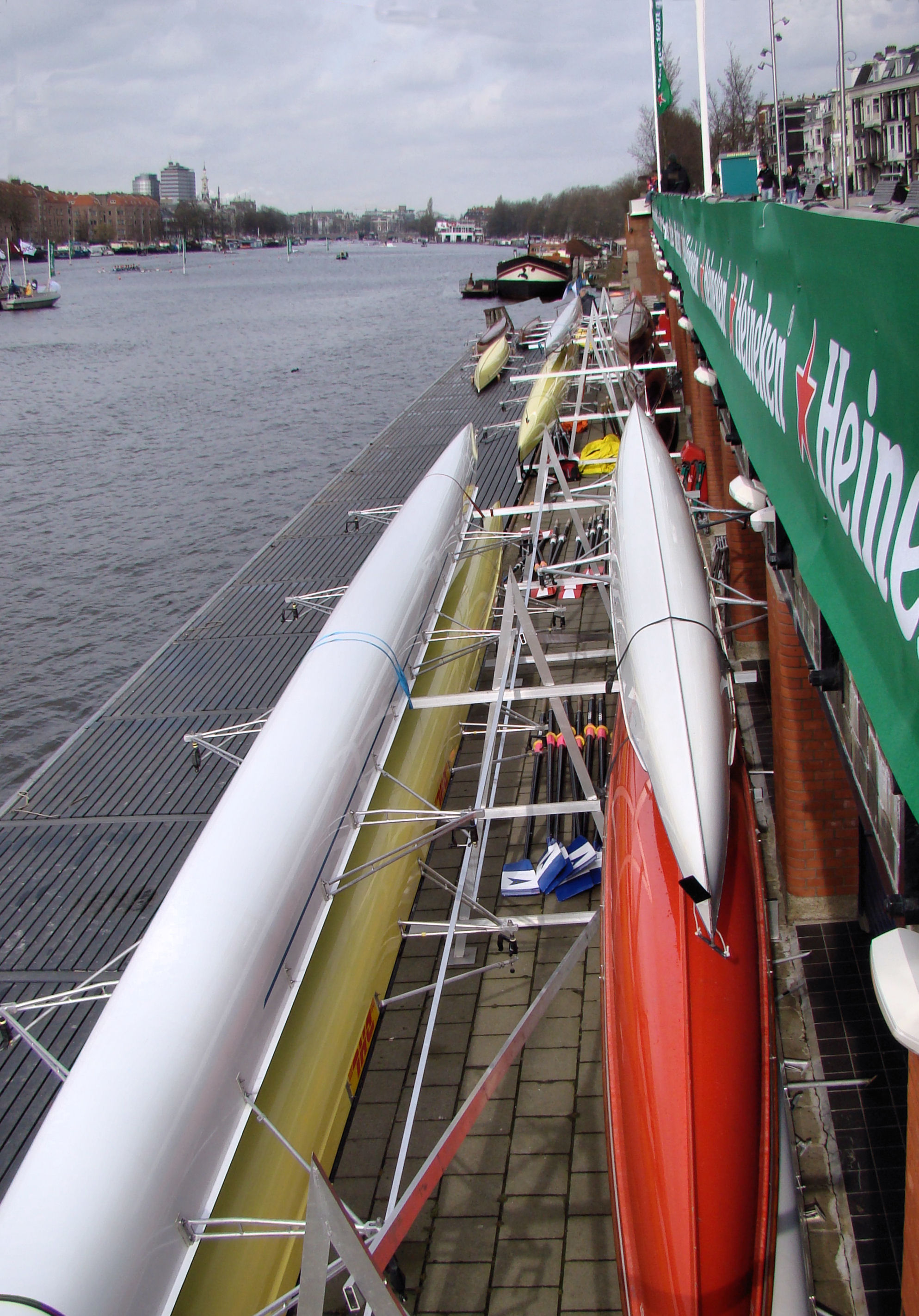 The Amstel River in Amsterdam during a Heineken sponsored rowing event.